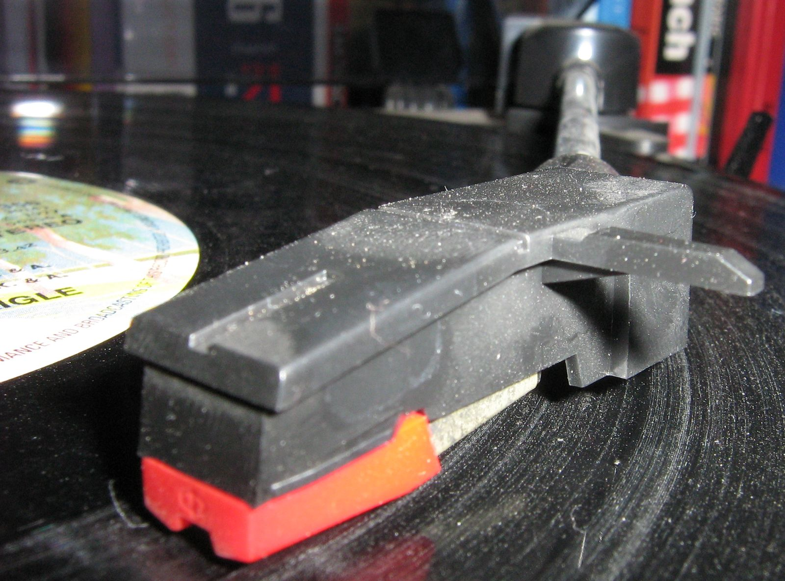 A very dusty/scratched vinyl record being played.